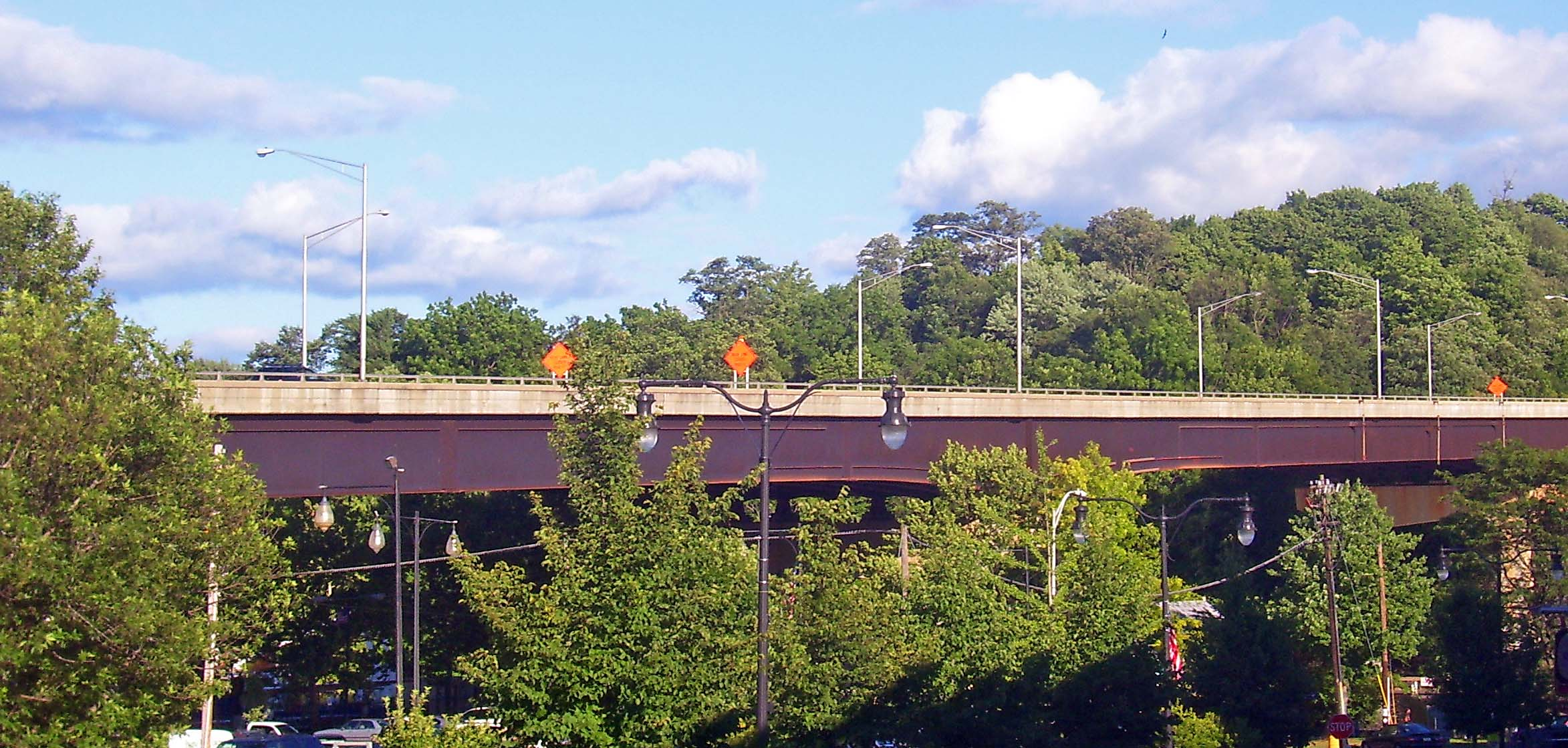 John T. Loughran Bridge carrying US 9W over Rondout Creek in Kingston, NY USA